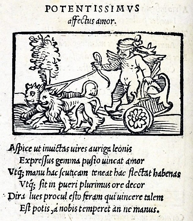 Emblem from "Emblematum liber", Augsburg 1531. With this book, Andrea Alciato created the "emblem" as a figure in the history of art. The emblem had to consist of three parts: headline, image and poem (Lemma, Icon and Epigramm).